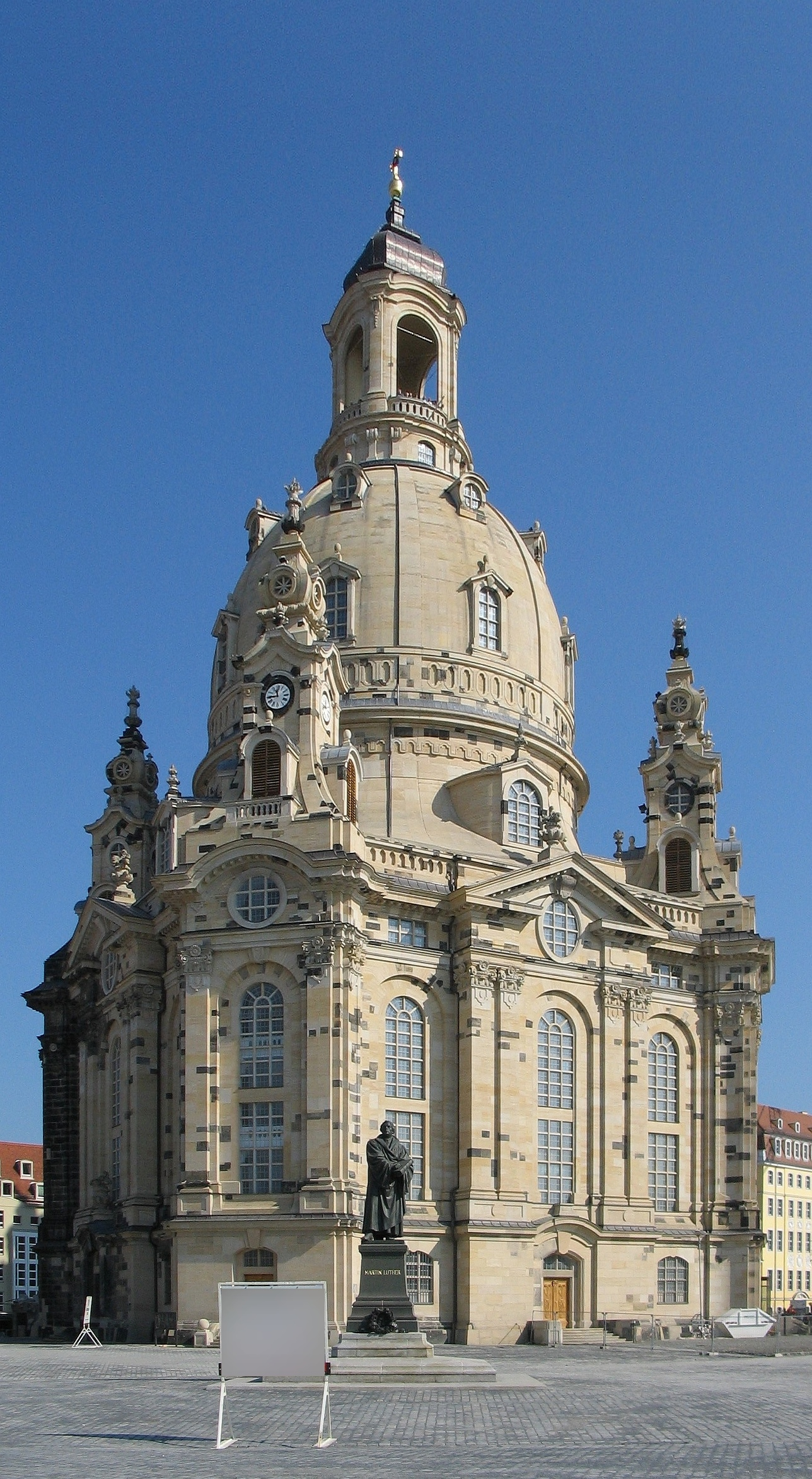 Dresden Frauenkirche (Our Lady's Church) taken in October 2005 by User:Phx de.